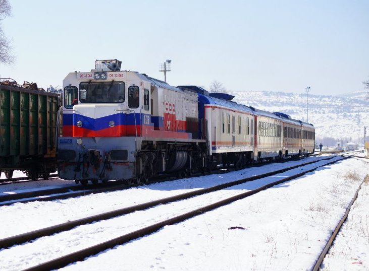 Eskisehir-Afyon Regional train at Alayunt in 2012.